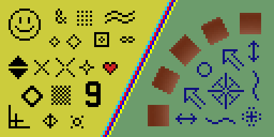 Nearest neighbor 3x scaling